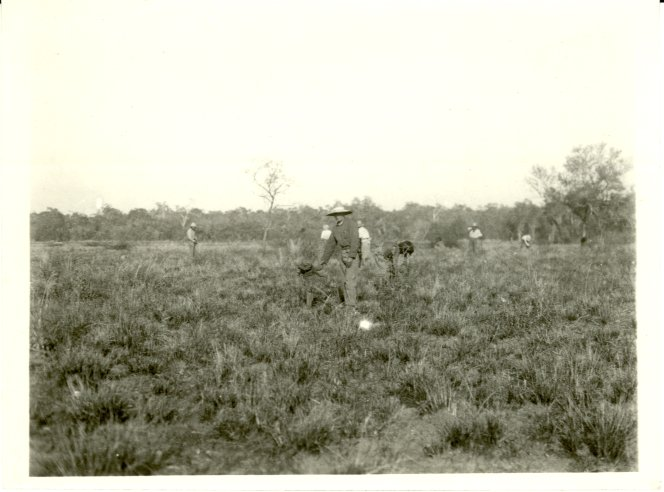 Citation: H.S. Bender Photographs. HM4-083 Box 1 Folder 3 Photo 132. Mennonite Church USA Archives - Goshen. Goshen, Indiana.